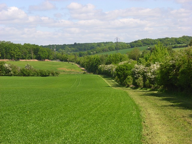 Farmland, Cole Henley On the footpath immediately west of the A34.